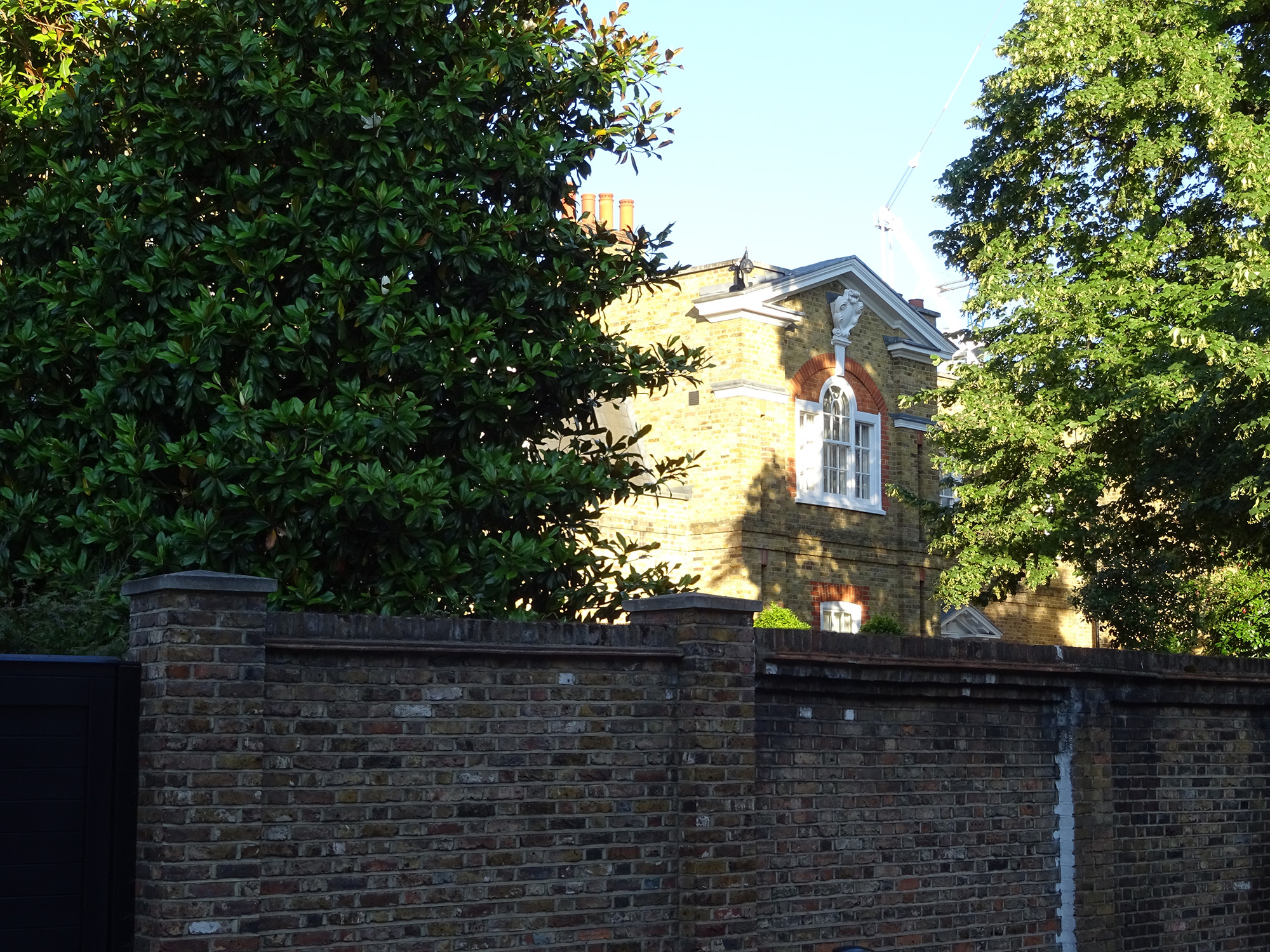 CHARLES KINGSLEY 1819-1875 Writer lived here - 56 Old Church Street Chelsea London SW3 5BD